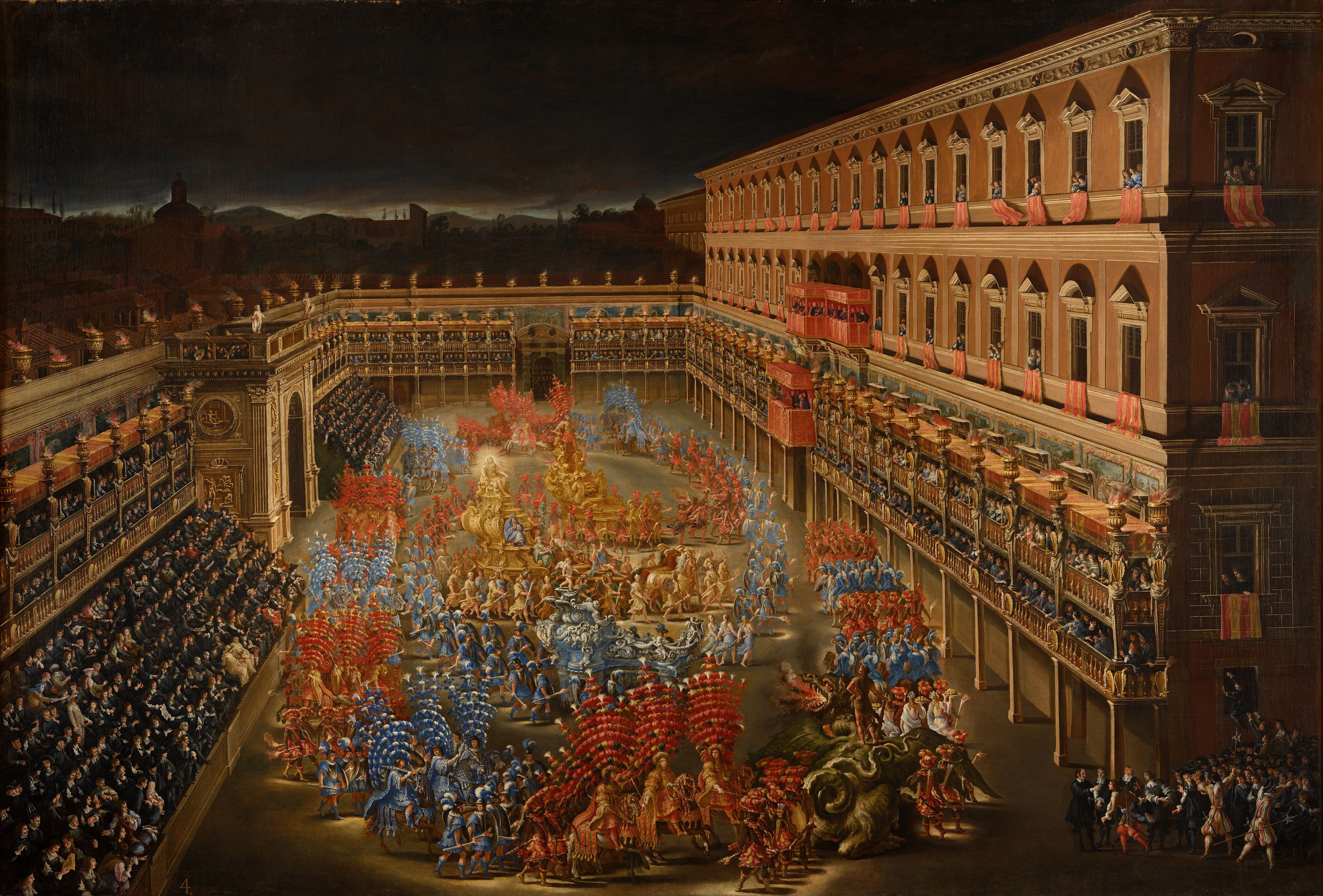 The Festivities in Honor of Queen Christina of Sweden in the Courtyard of Palazzo Barberini, 28 February 1656.